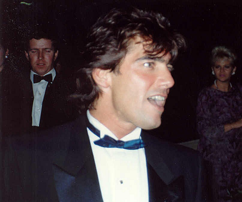 Photo taken at the 41st Emmy Awards 9/17/89